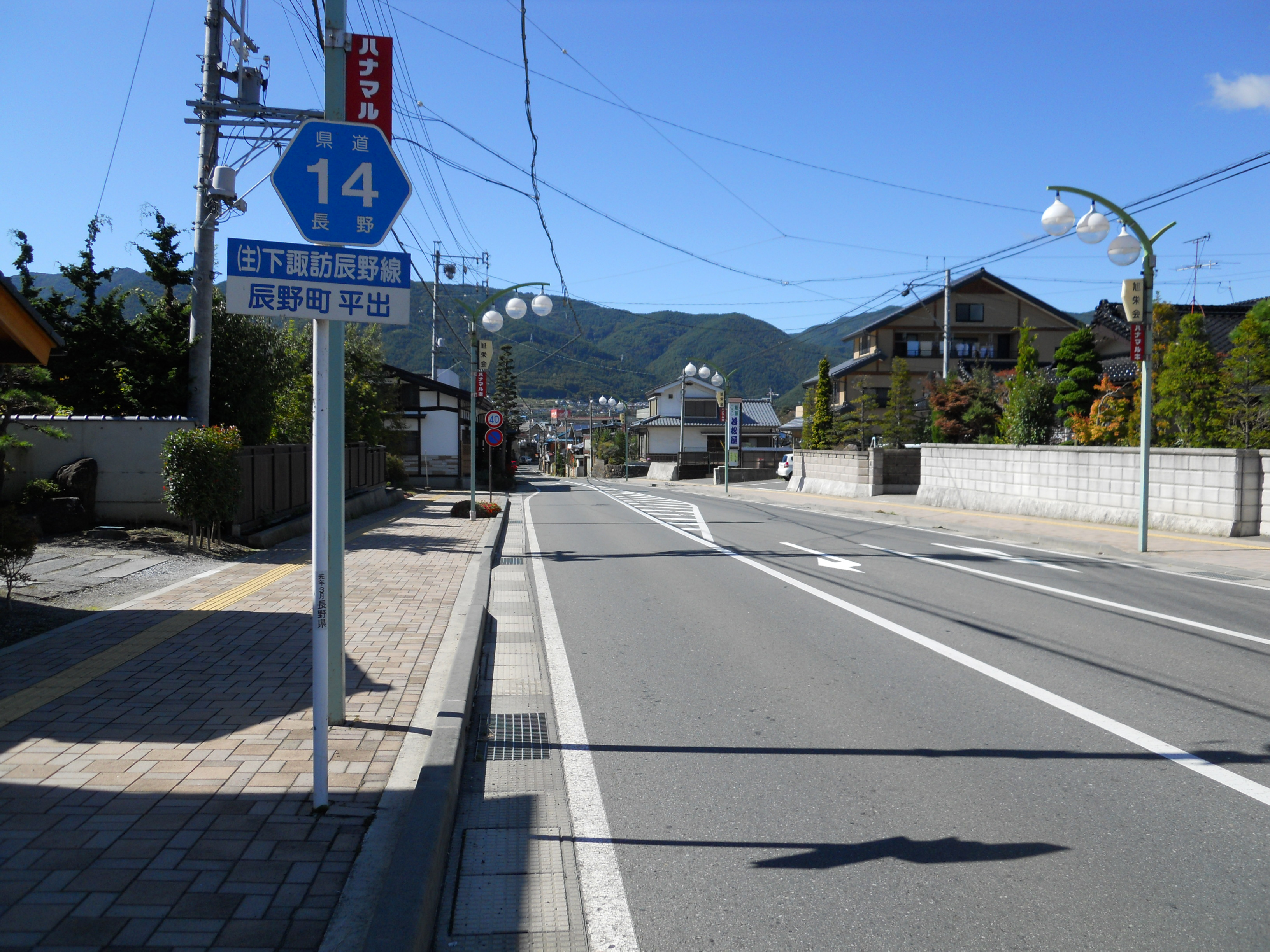 Hiraide Intersection in Tatsuno Town